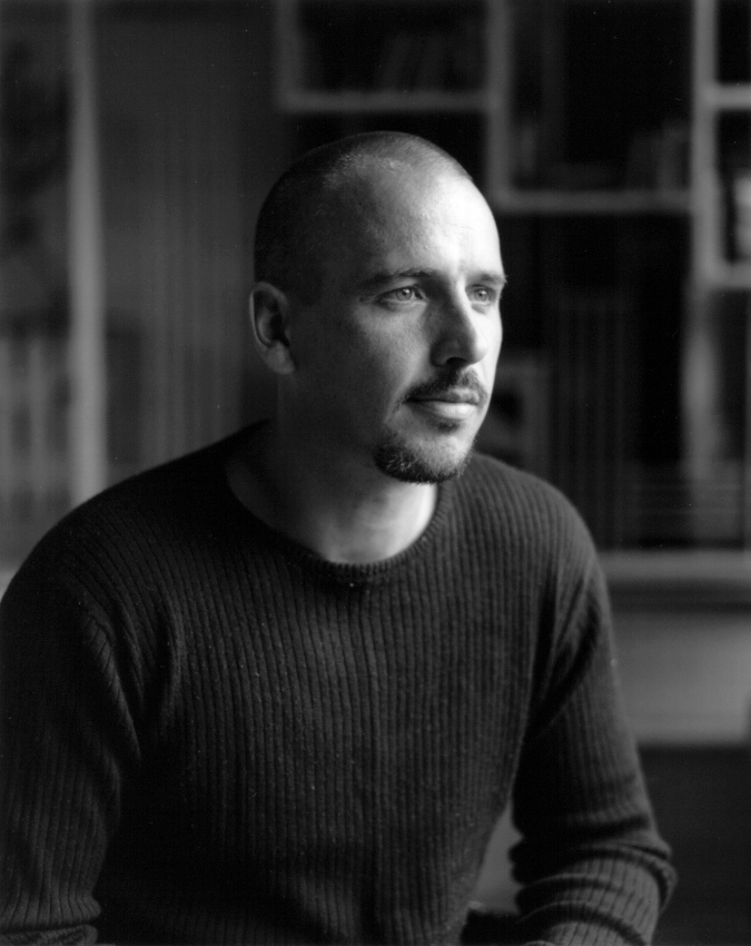 photographer, Andrew Cowan